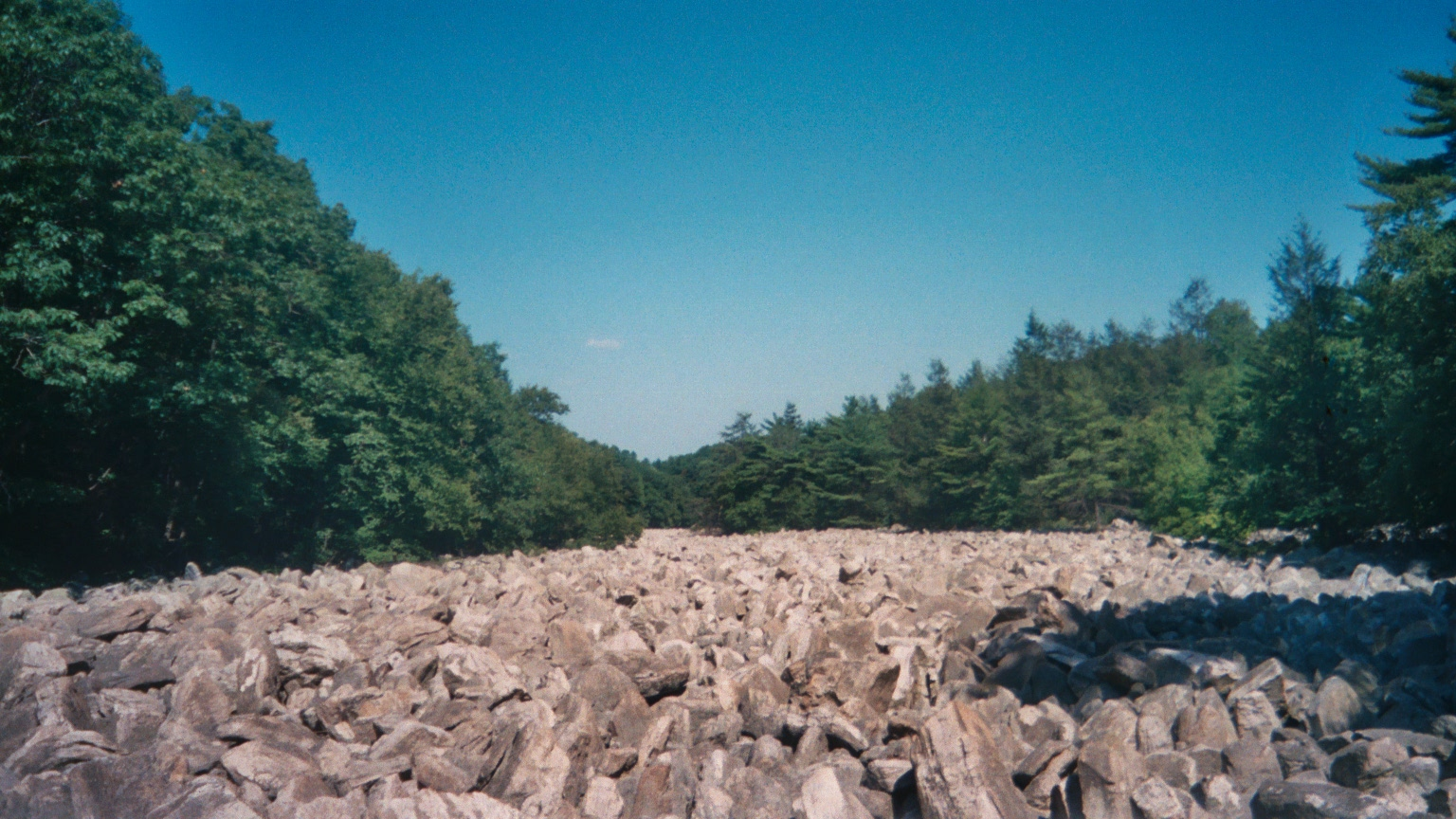 The "River of Rocks" at the Hawk Mountain, Pennsylvania. According to this formation is a mile-long boulder field, up to 40 feet deep, which was deposited 10,000-12,000 years ago (the end of the last ice age), when glaciers stopped 40-50 miles to the north of this location. A periglacial process cracked boulders from the ridgetop that gradually slid to their current position. The photo was taken on July 31, 2007